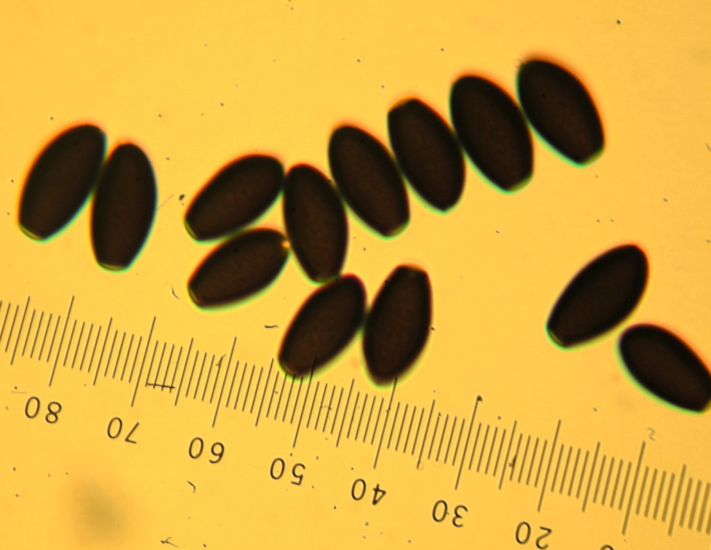 Coprinopsis lagopus (Fr.) Redhead, Vilgalys & Moncalvo Location: Bon Tempe Reservoir, Marin Co., California, USA For more information about this, see the observation page at Mushroom Observer.